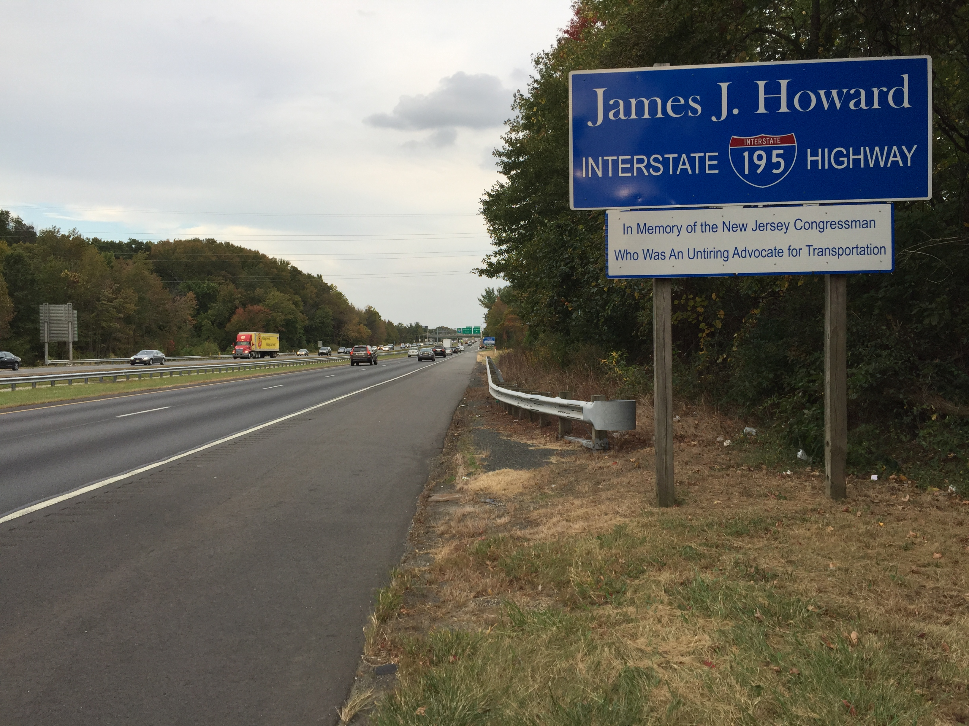 "James J. Howard Interstate 195 Highway" memorial sign along eastbound Interstate 195 (Central Jersey Expressway) just west of Exit 3 (Yardville, Hamilton Square) in Hamilton Township, Mercer County, New Jersey